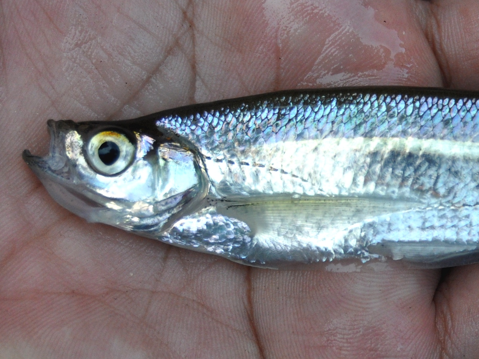 Oxygaster anomalura, 100 mm SL (standard length); anterior part. From Kampung Lembonah, Jempang, Kutai Barat, East Kalimantan, Indonesia.